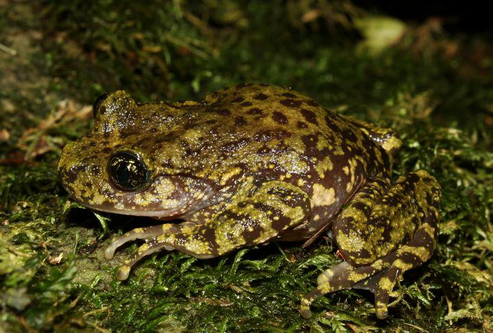 Hadromophryne natalensis in Mariepskop, South Africa